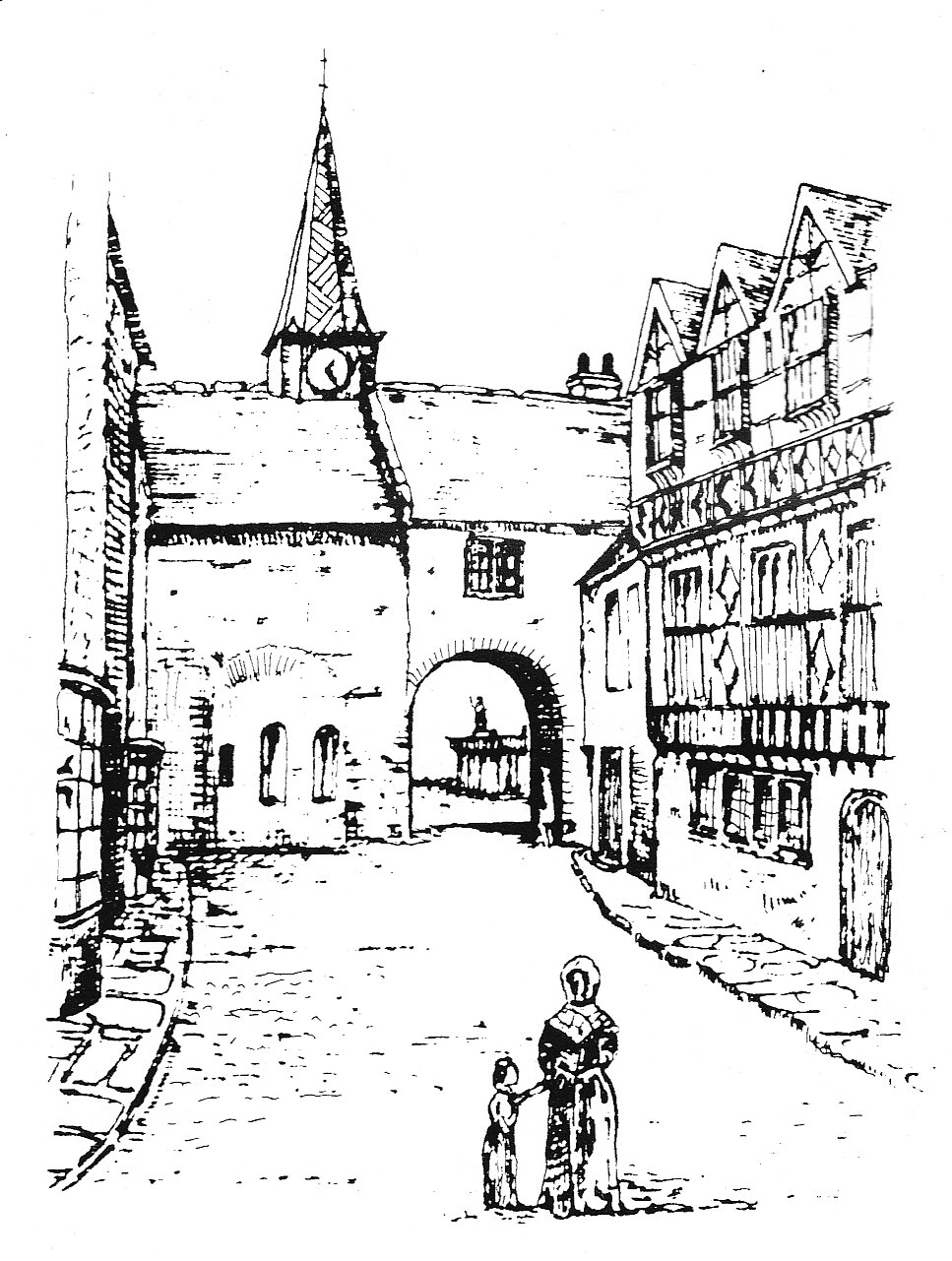 The 16th.c. "Dodderidge House" (right) in Cross Street, Barnstaple, Devon, home of Sir John Dodderidge (1555–1628), Justice of the King's Bench. 19th.c. engraving by Jonathan Lomas (prob. of New Mills, Derbyshire), view looking down Cross Street from High Cross toward the West Gate and Chapel of St Nicholas.